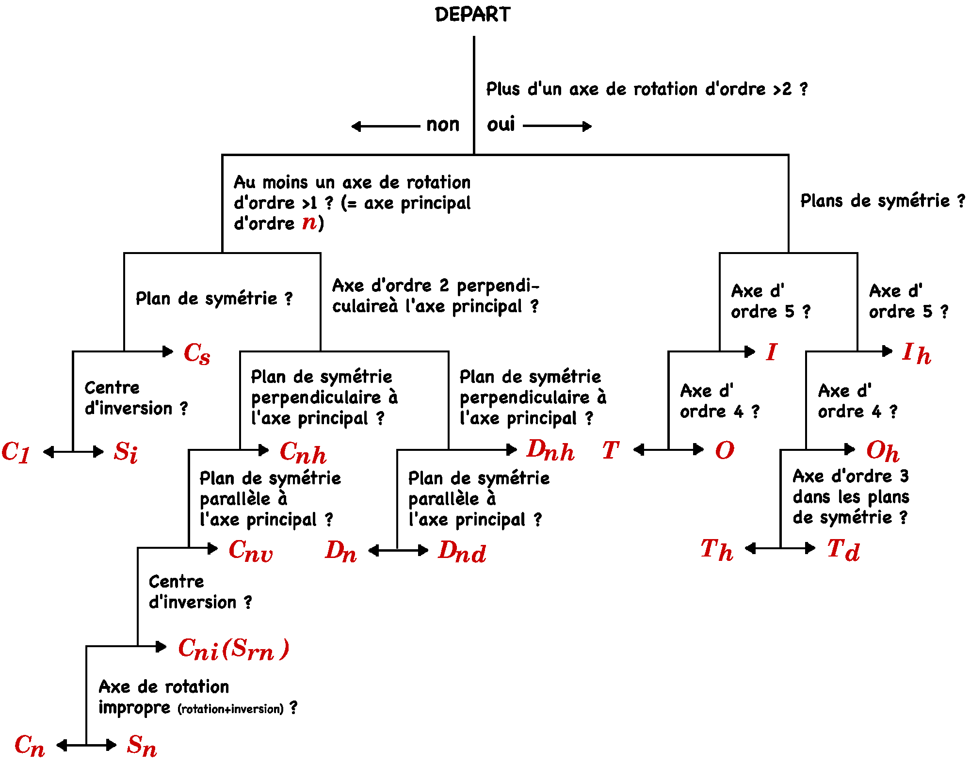 how to determine symetry group of molecule